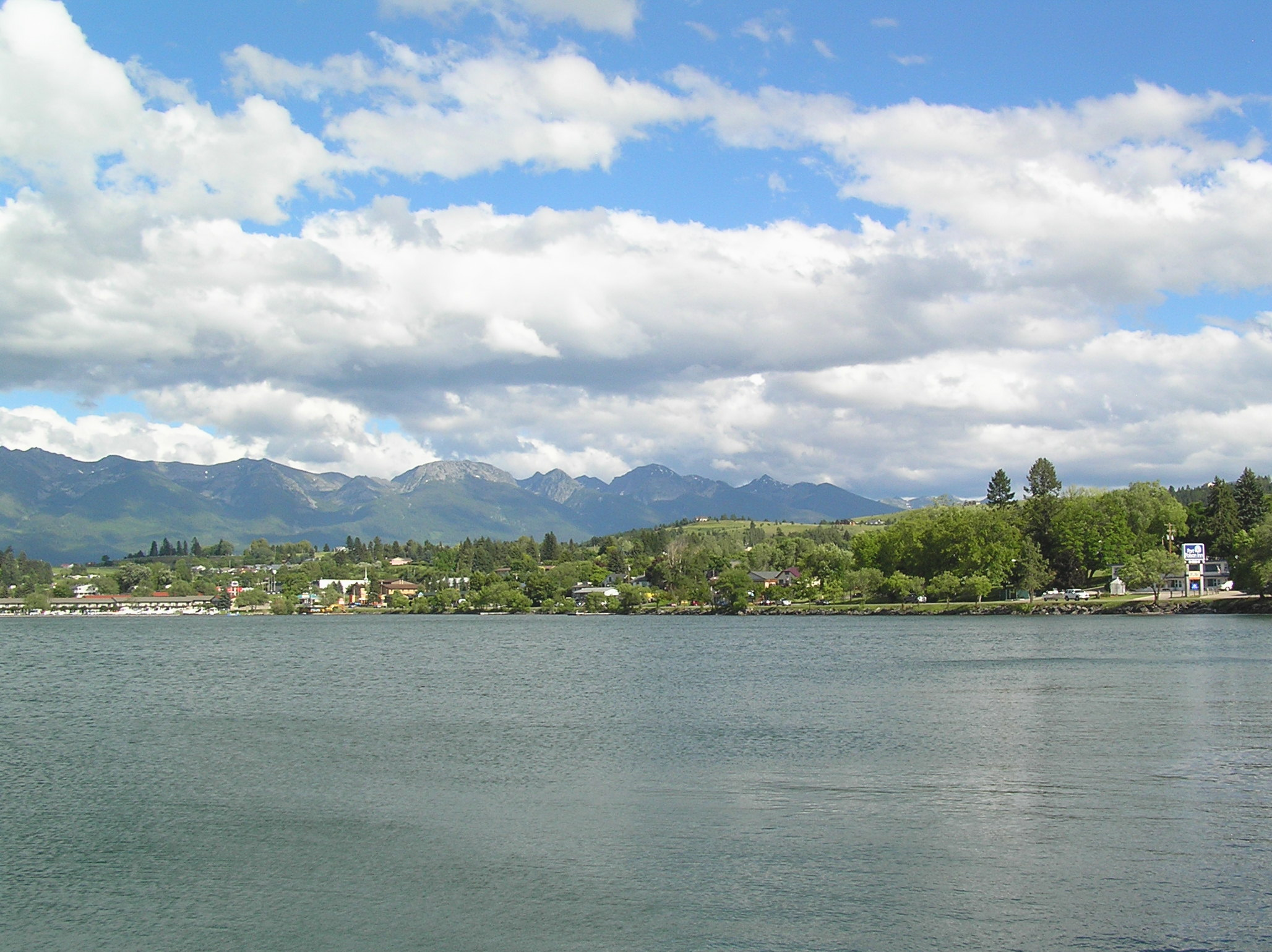 Polson and Flathead Lake viewed from KwaTuqNuk resort, looking southeast